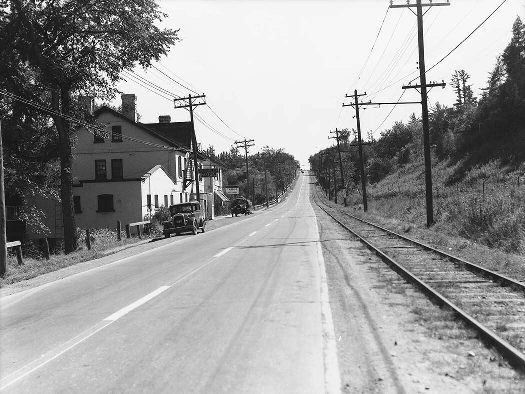 Yonge Street at York Mills Station, showing the Jolly Miller Hotel on the east side, and the TTC North Yonge Railway tracks on the west side.